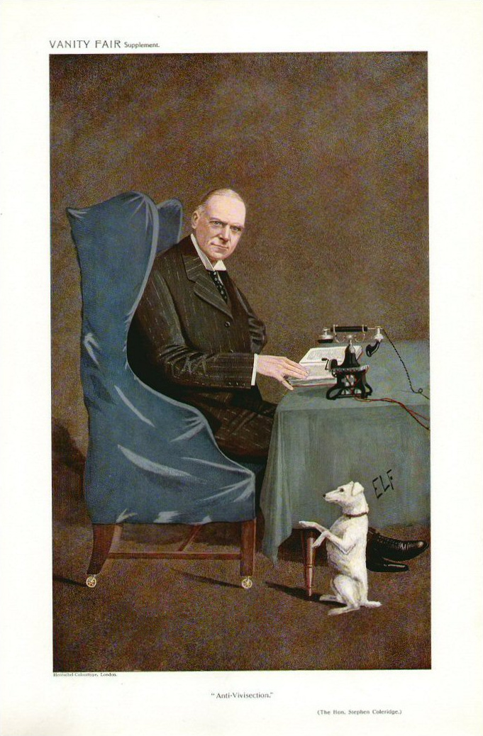 Vanity Fair caricature of Stephen Coleridge. ID: M 1238 Issue: 2178 Caption: Anti-Vivisection Subject: The Hon. Stephen Coleridge. Caricaturist: ELF